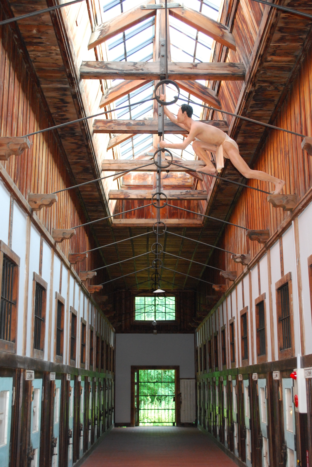 Jailbreak reproduction at Abashiri kangoku